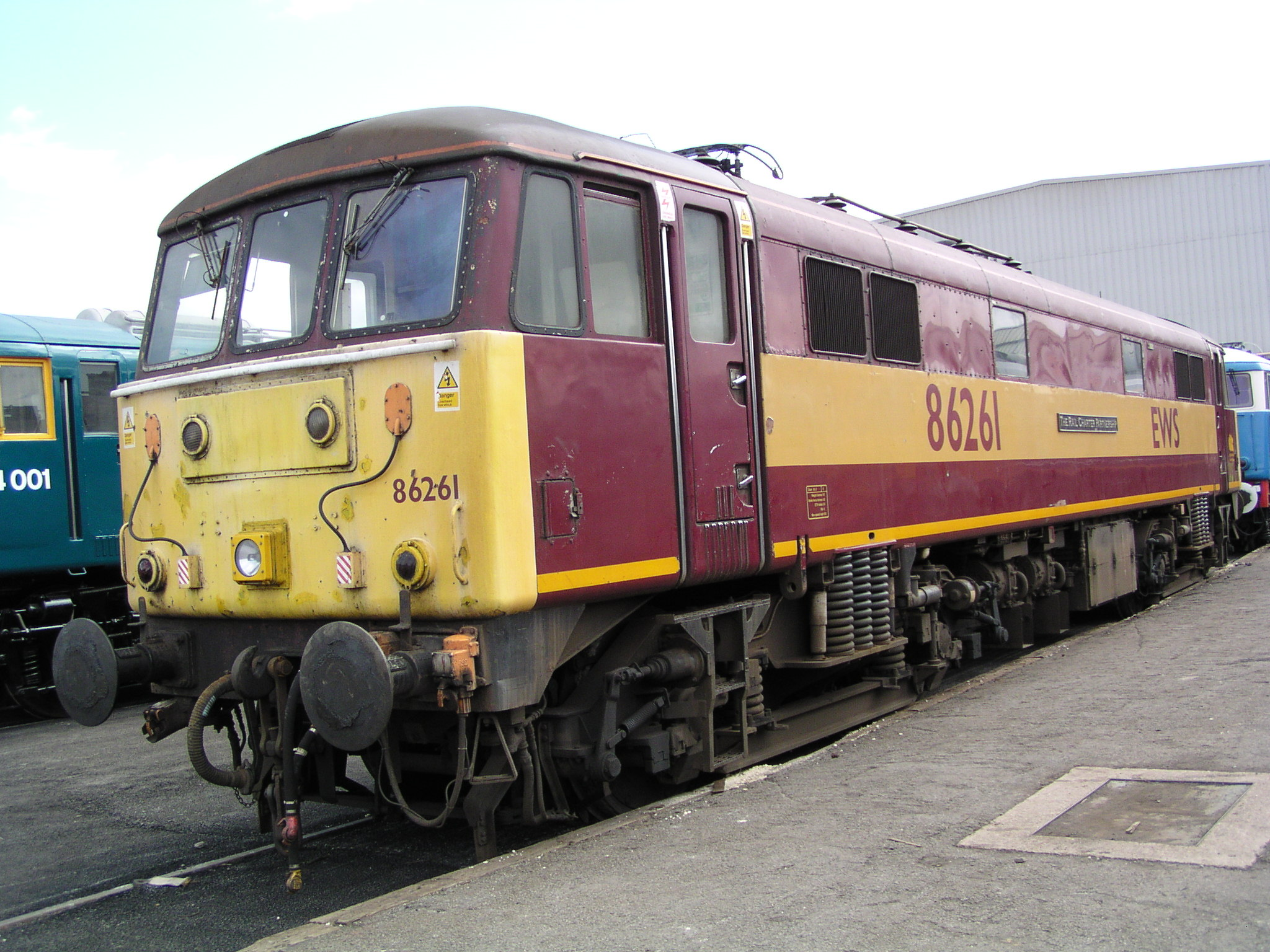 BR Class 86, no. 86261 'Rail Charter Partnership' at Doncaster Works